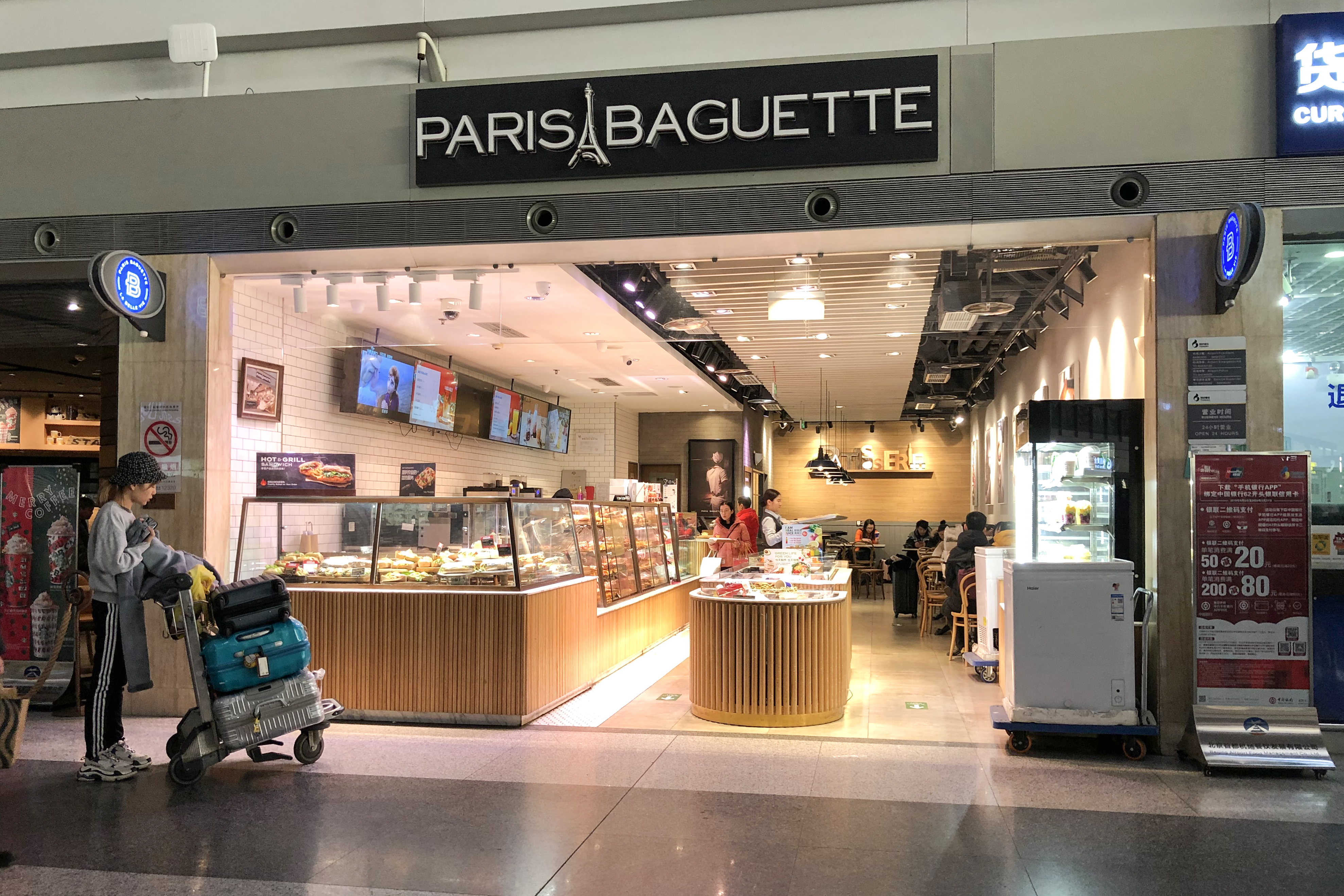 A "Paris Baguette" at ZBAA T3, next to departure checks.